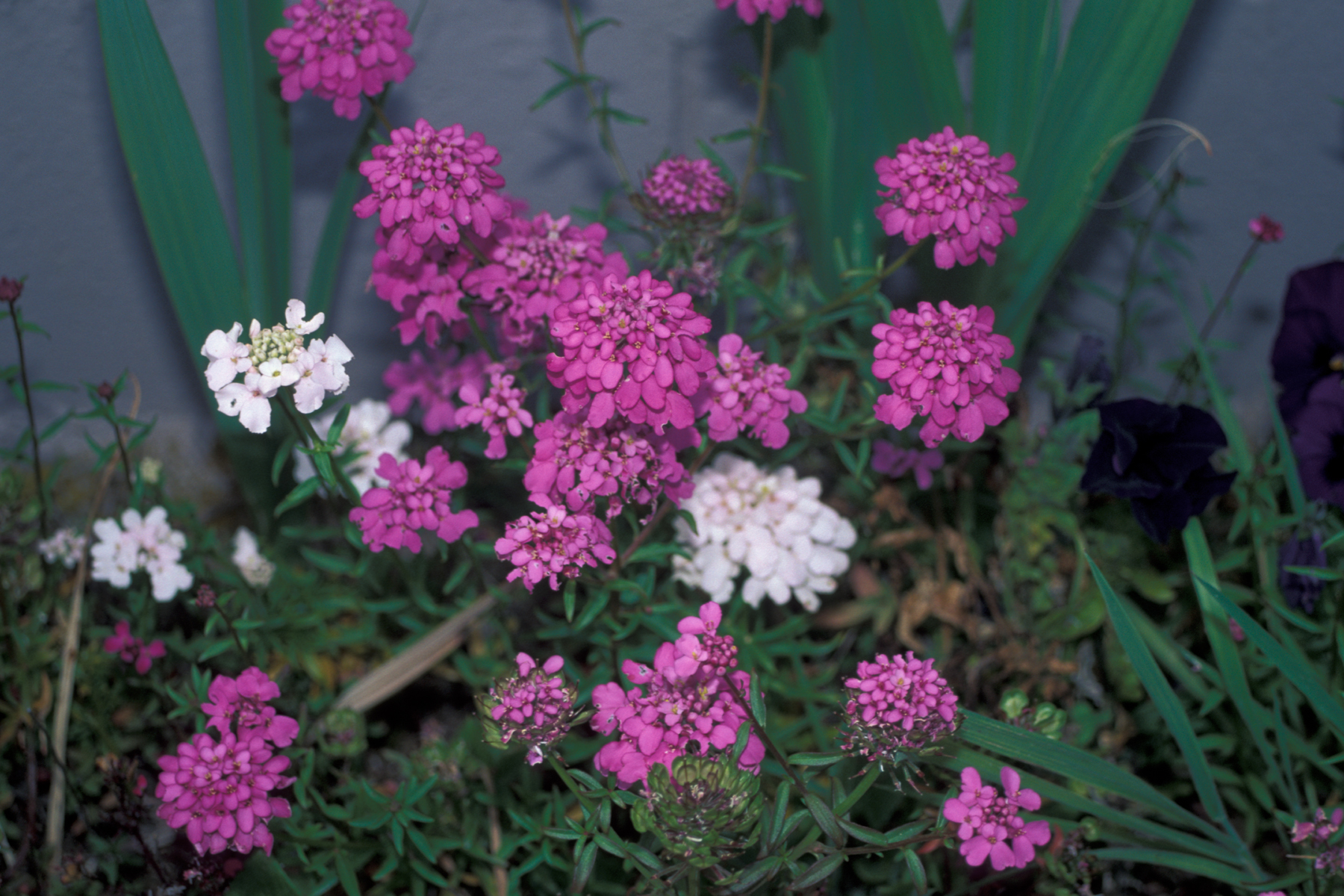 Iberis umbellata (habit). Location: Maui, Housing Haleakala National Park